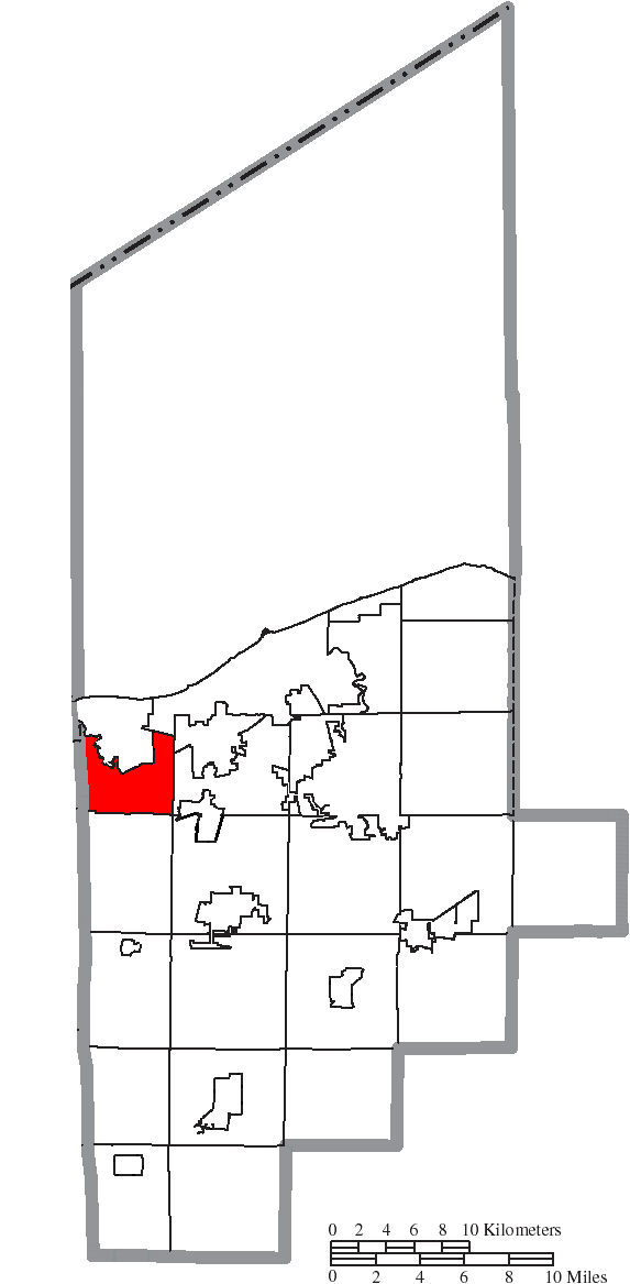 Map of the municipal and township boundaries of Lorain County, Ohio, United States, as of the 2000 census, with the location of Brownhelm Township highlighted. Township borders are shown only in unincorporated areas in order to differentiate incorporated and unincorporated areas more clearly.